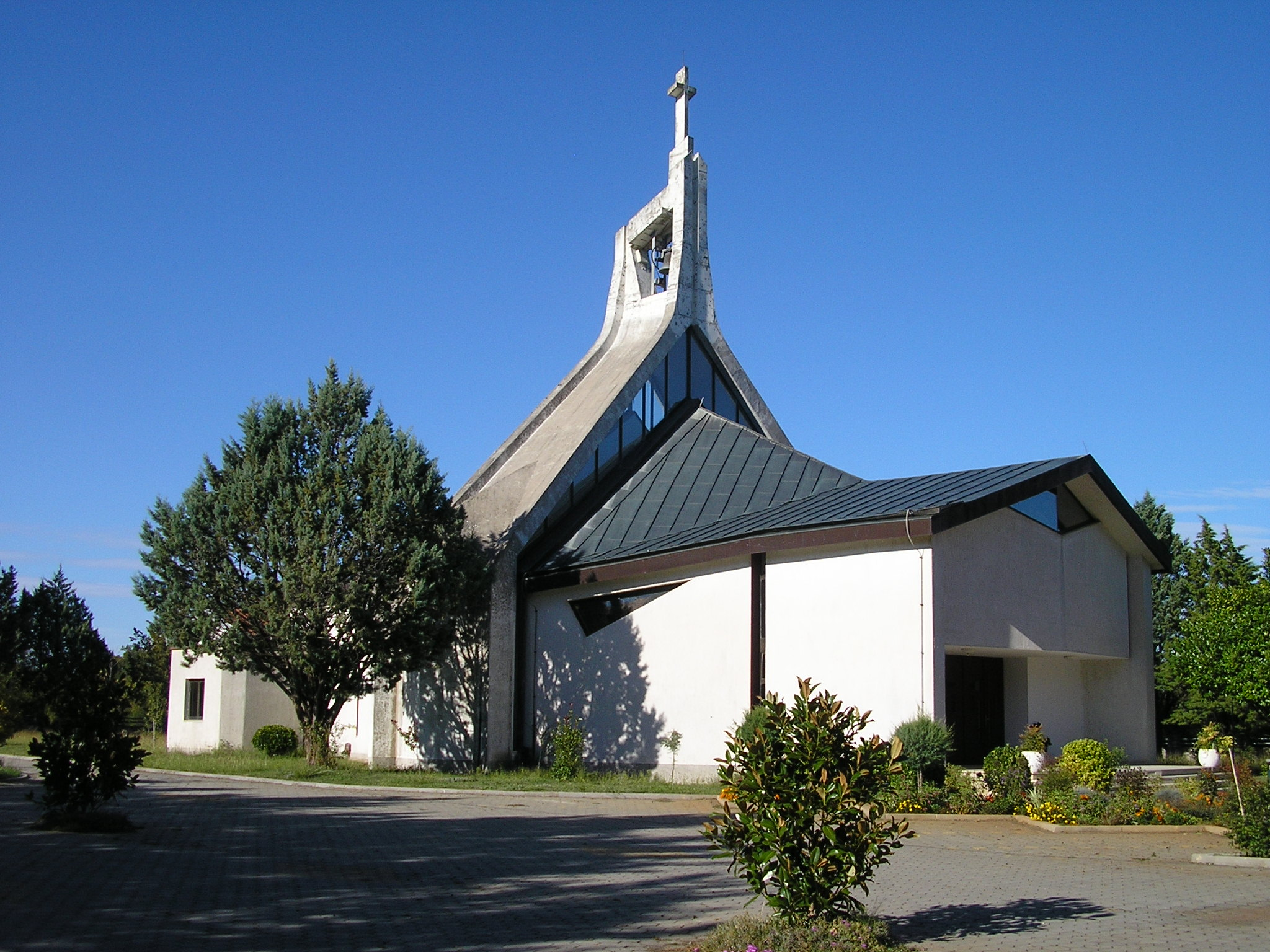 St. John the Baptist's church in Crven Grm